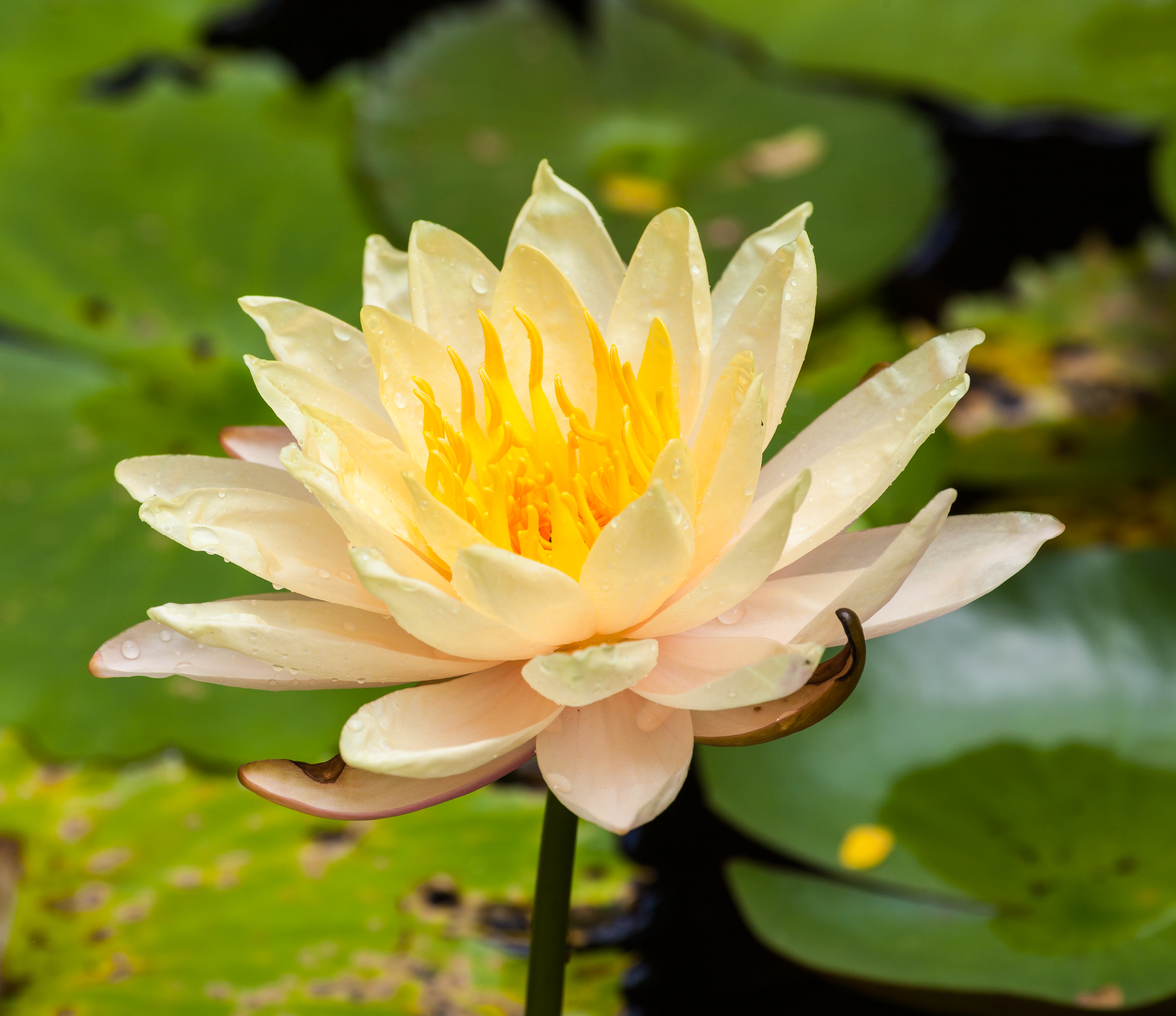 Exemplar of a water rose cultivar (Nymphaea) in a public garden in Ho Chi Minh City, Vietnam.